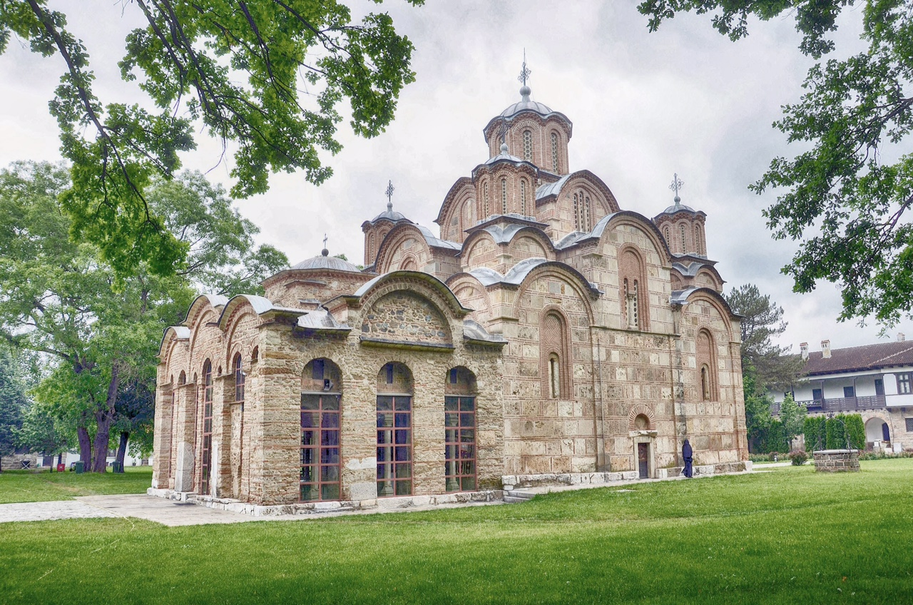 The Gračanica Monastery in Kosovo